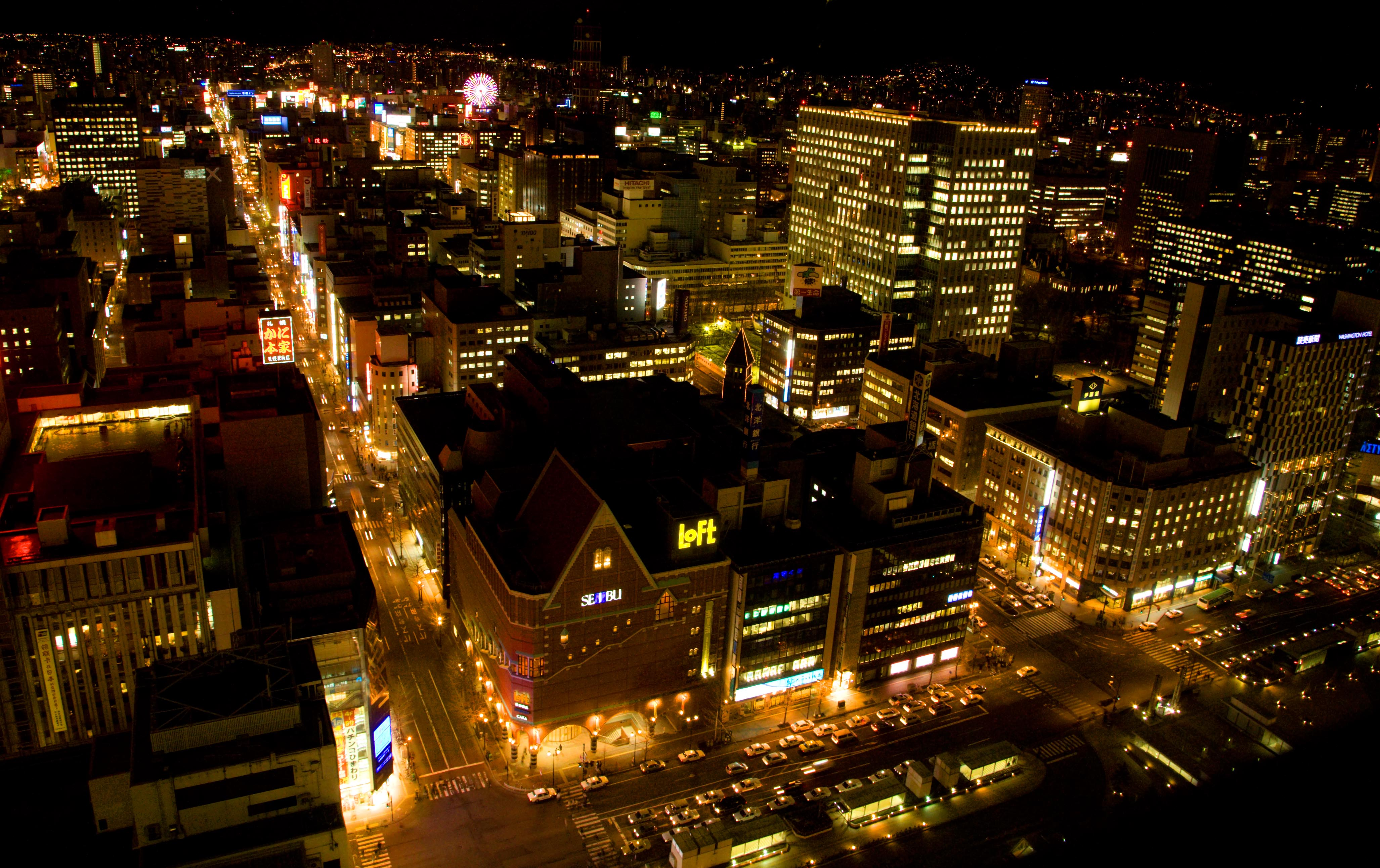 To approximate what I saw, I would ask you to view this in large Needs additional description